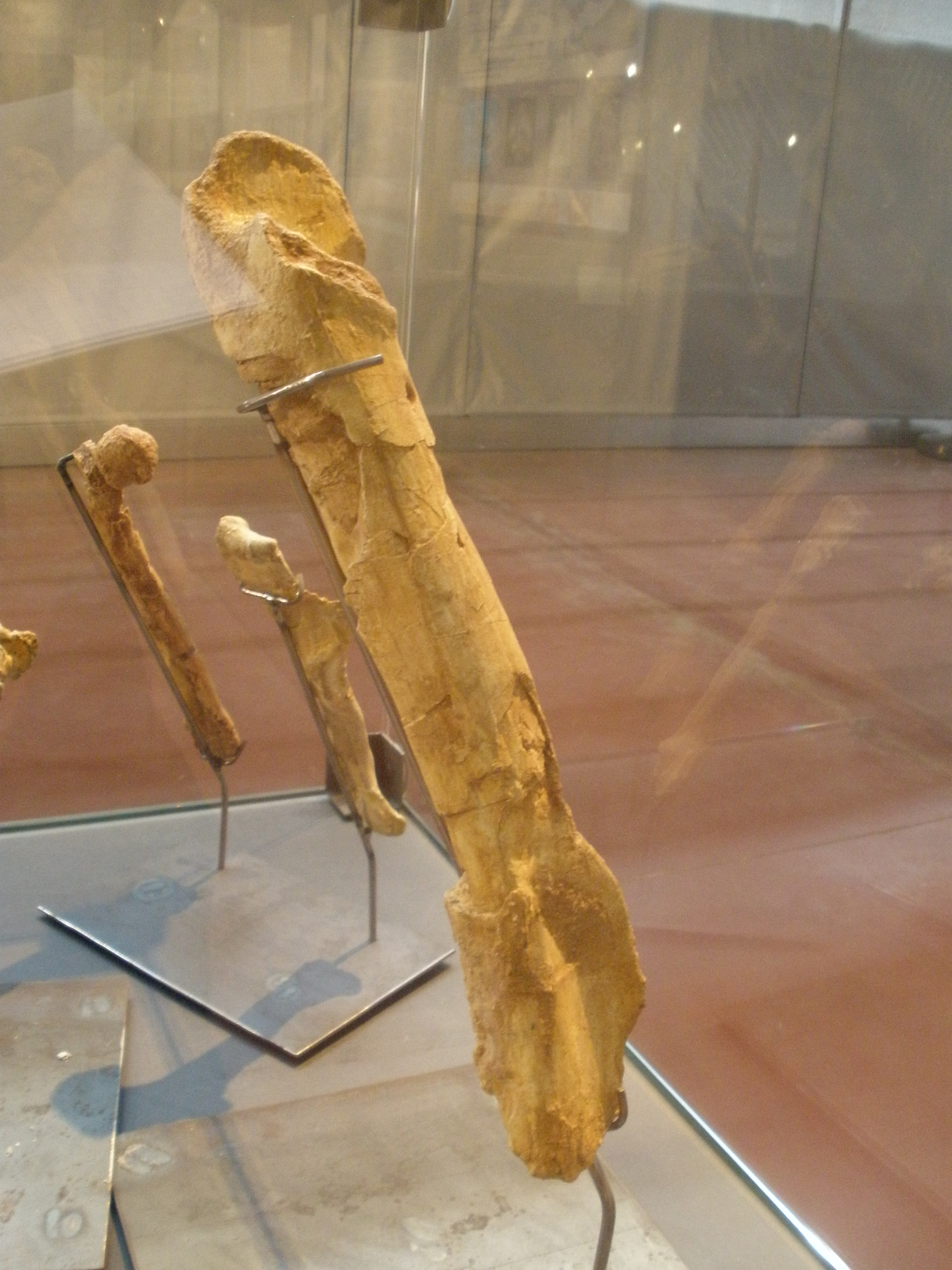 Fossil of Tarascosaurus salluvicus, an extinct theropod discovered in the South of France